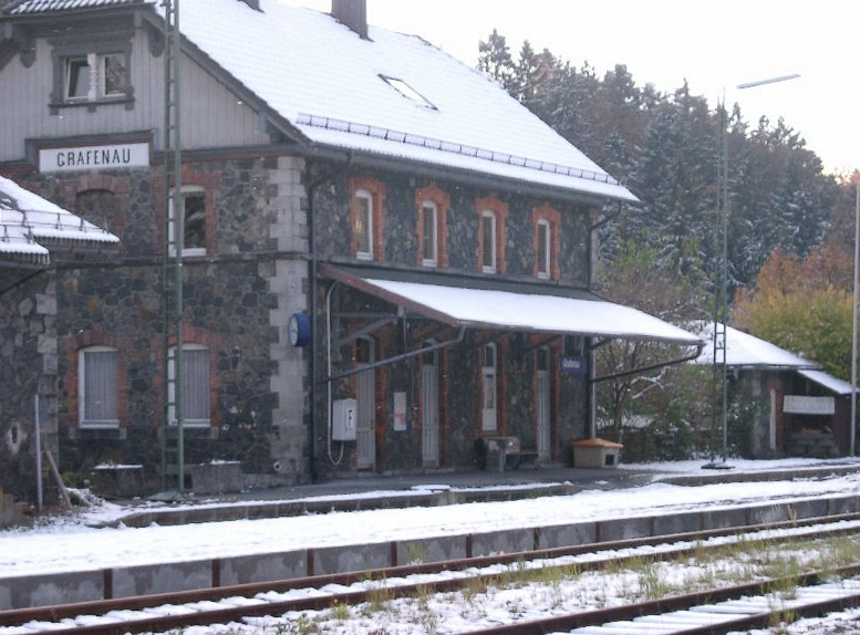 Grafenau station, Lower Bavaria, Germany.